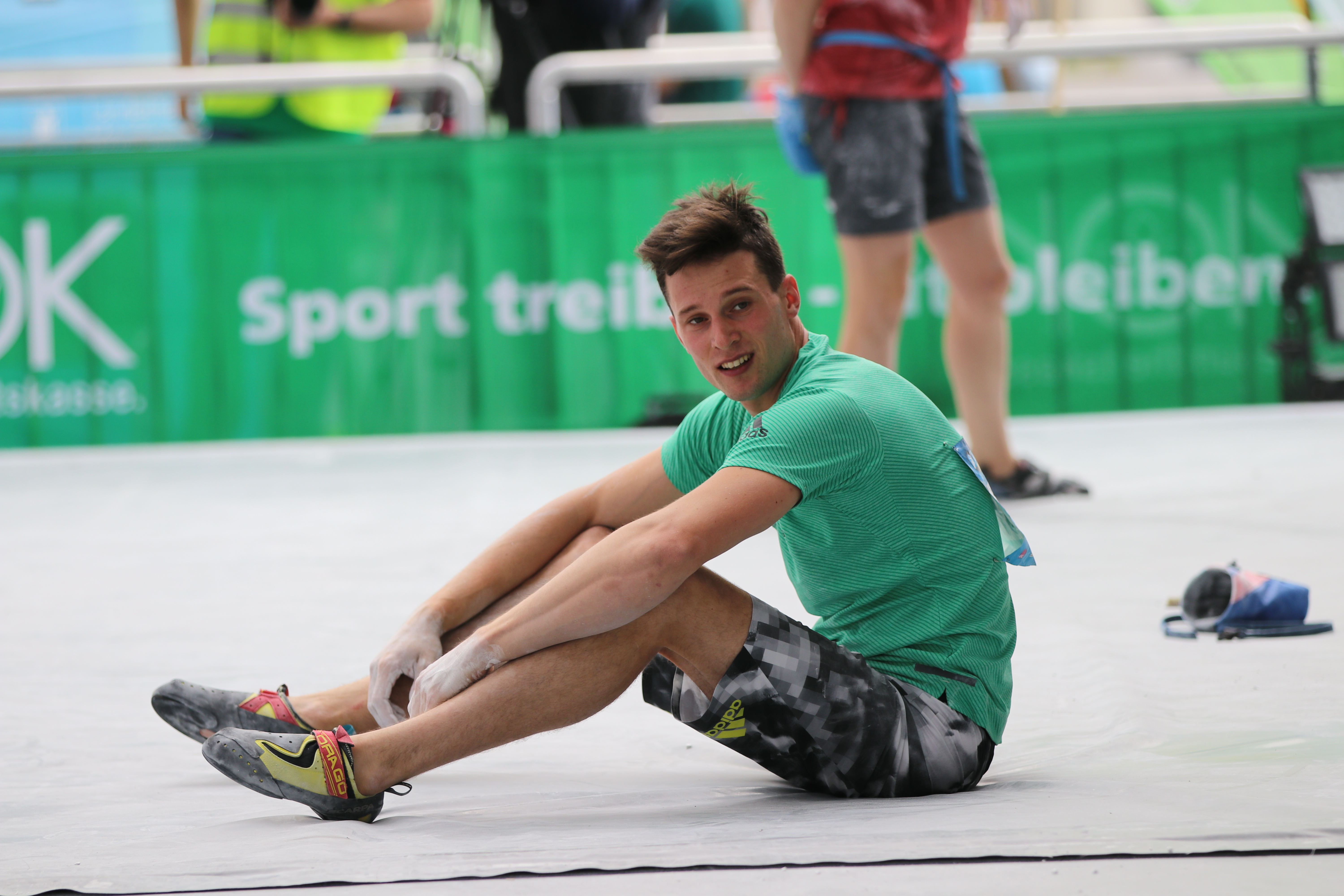 Jernej Kruder SLO at the Boulder Worldcup 2017 in Munich, Germany.